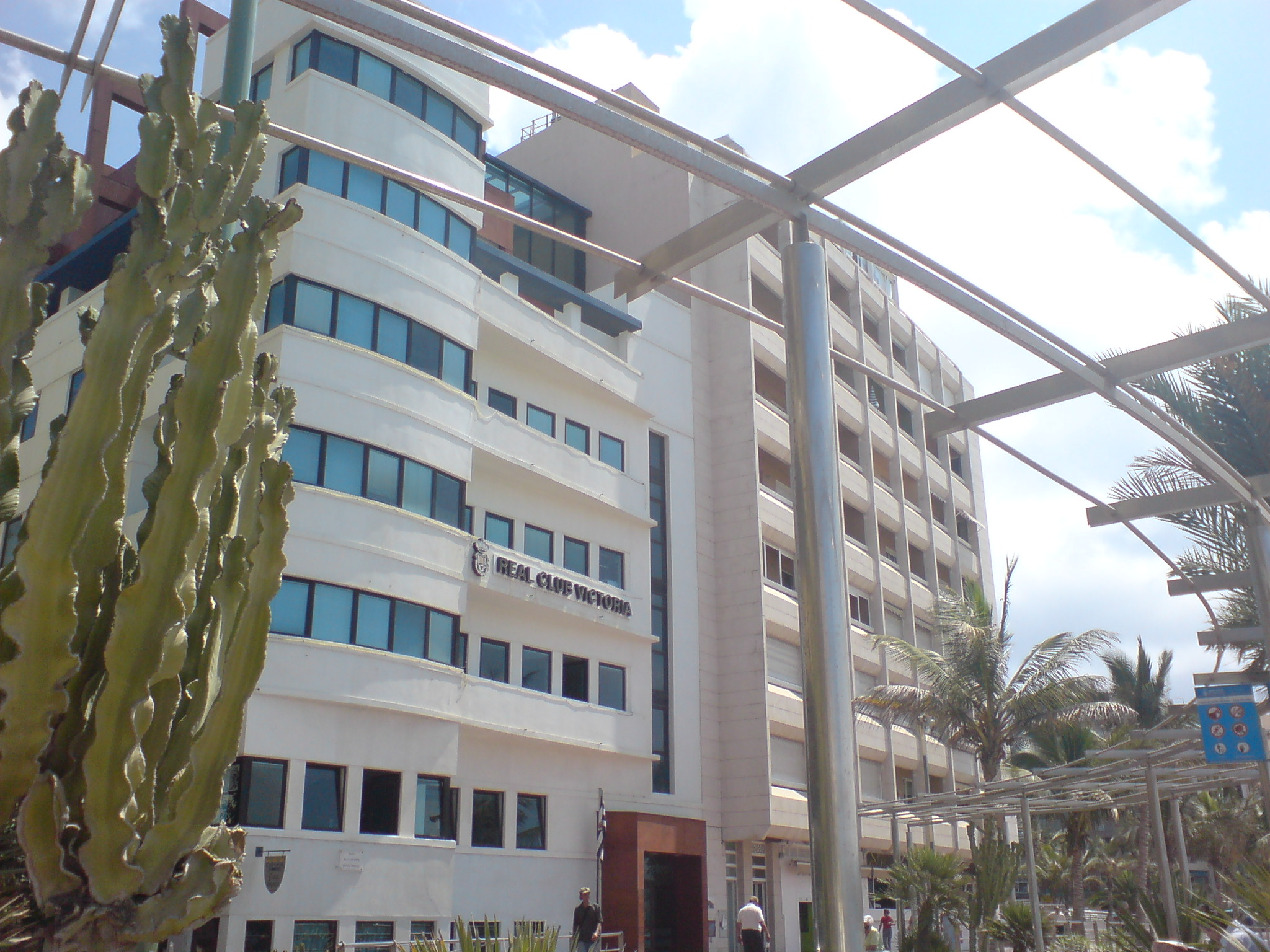 Real Club Victoria of Las Palmas Gran Canaria. Canary Island, Spain.